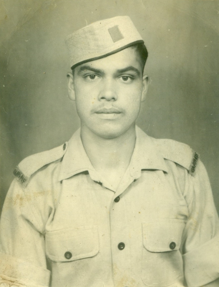 A Garhwal Rifles recruit in the 1970s.